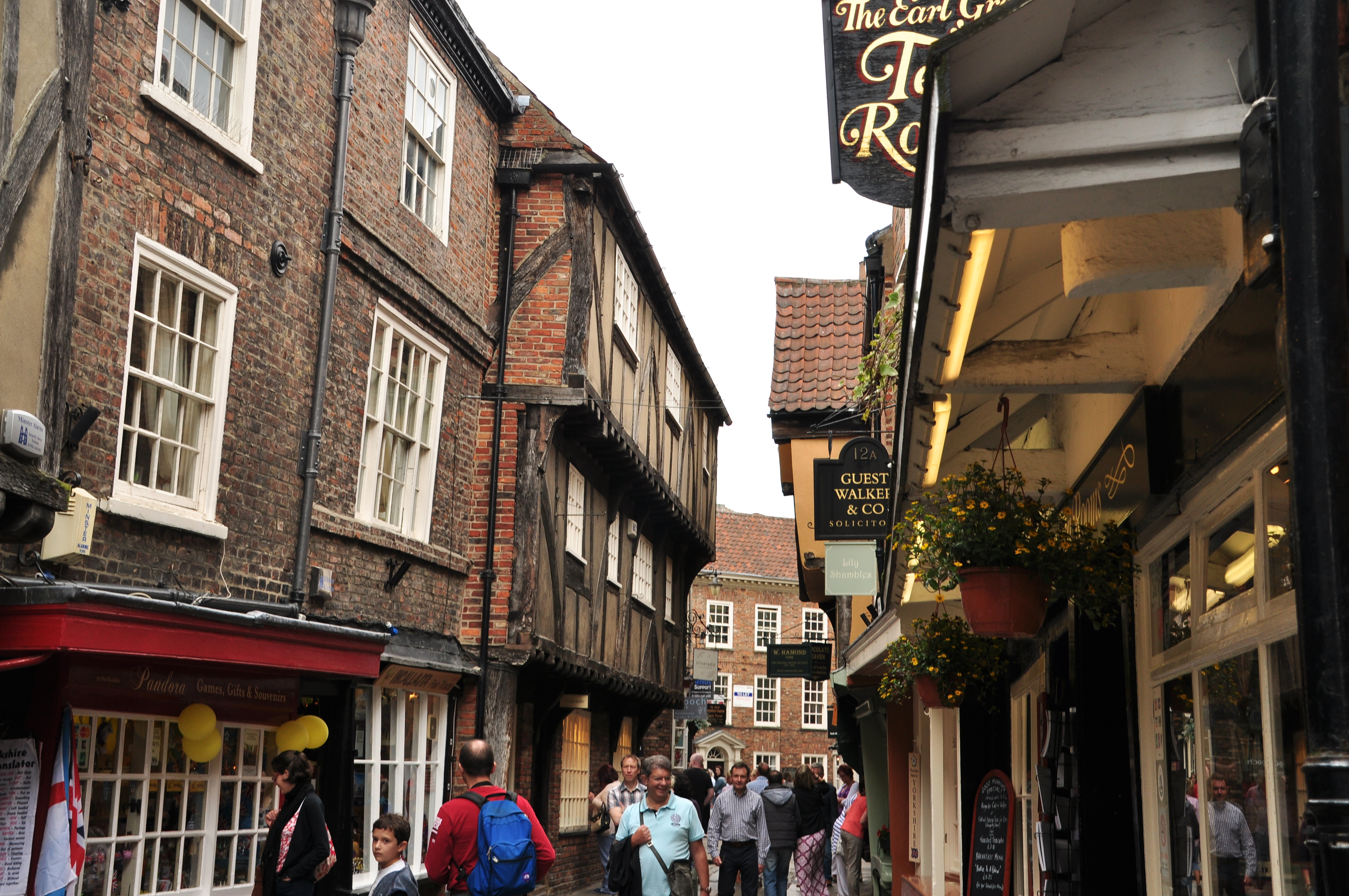 The Shambles, York